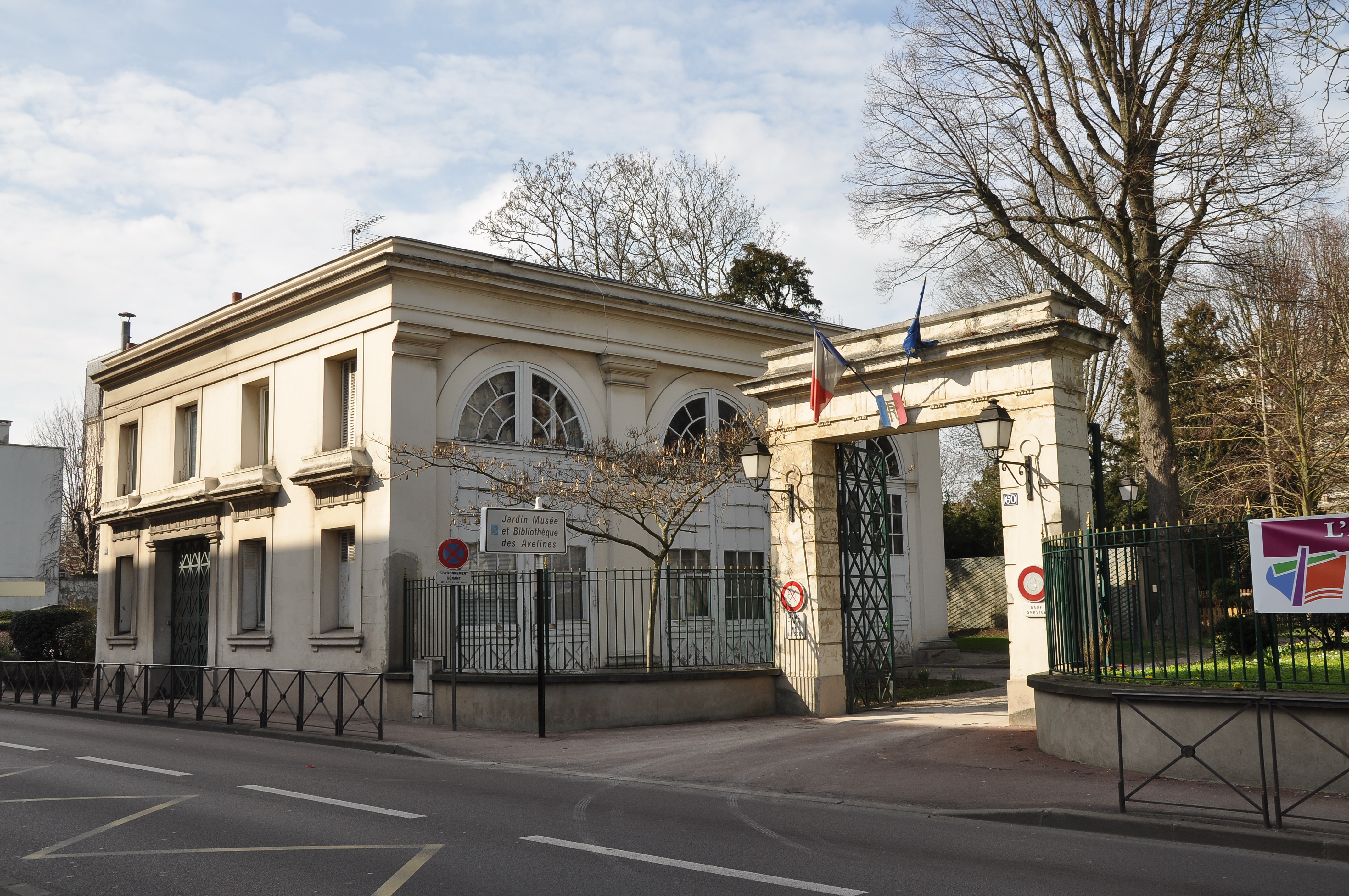 The entrace of the garden and the museum of Avelines at 60 rue Gounod in Saint-Cloud, Hauts-de-Seine department, France.